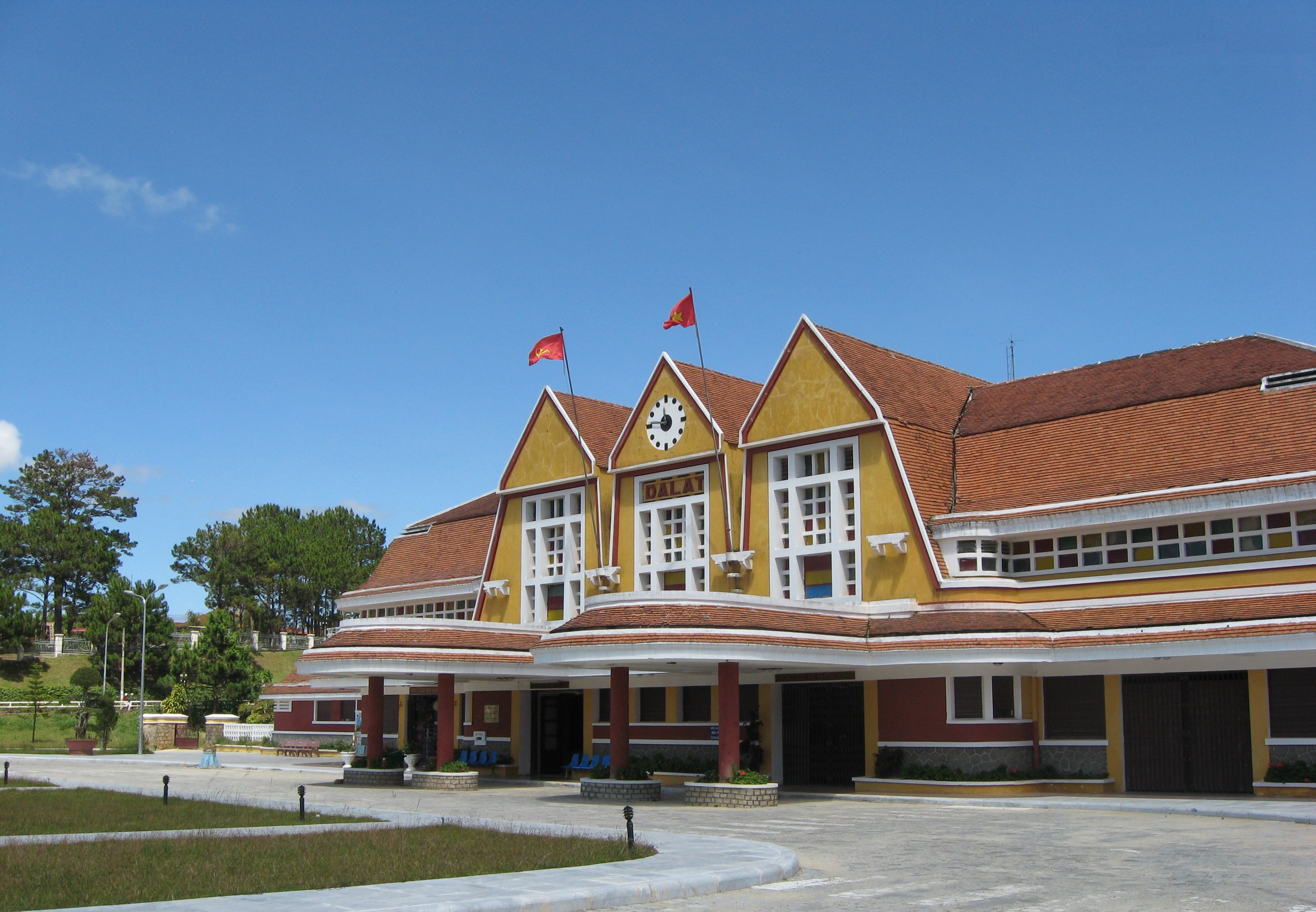 Da Lat train station